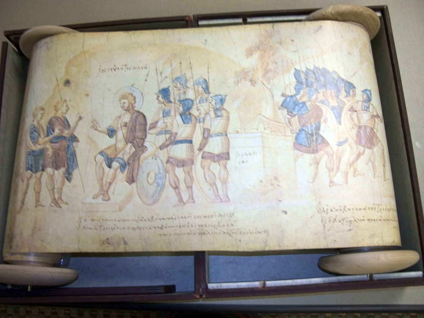 The Joshua Roll is an illuminated manuscript, probably of the 10th century, created in the Byzantine empire, according to many scholars by artists of the Imperial workshops in Constantinople. It is in the Vatican Library. The Roll portrays the Old Testament Book of Joshua using a reduced version of the Septuagint text. It depicts the first 12 chapters, when Joshua was engaged in frequent and successful conquest.